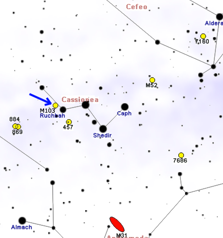 M103